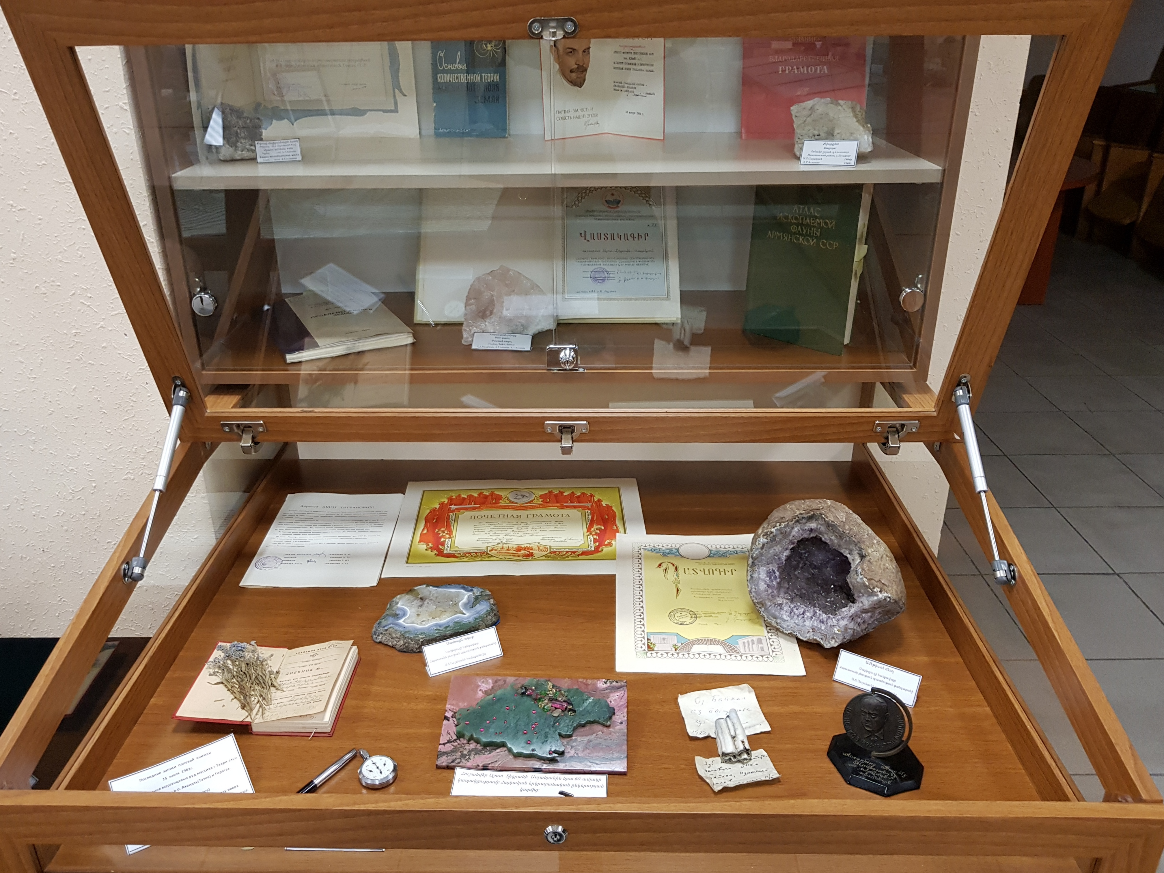 Exhibition devoted to Ashot Aslanyan's 100th anniversary at Geological Museum after H. Karapetyan